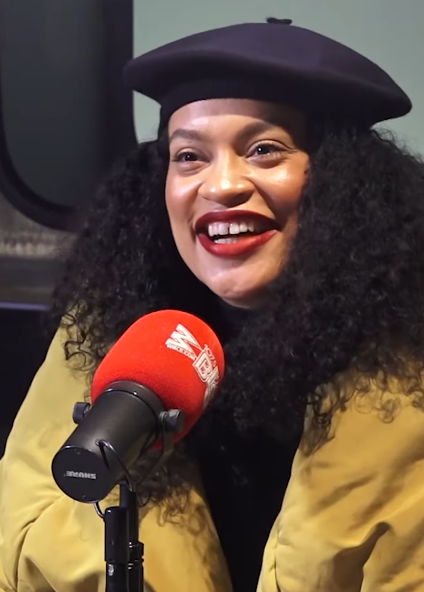 Nicole Bus Discusses New Album and Tries to Teach Shaila Dutch